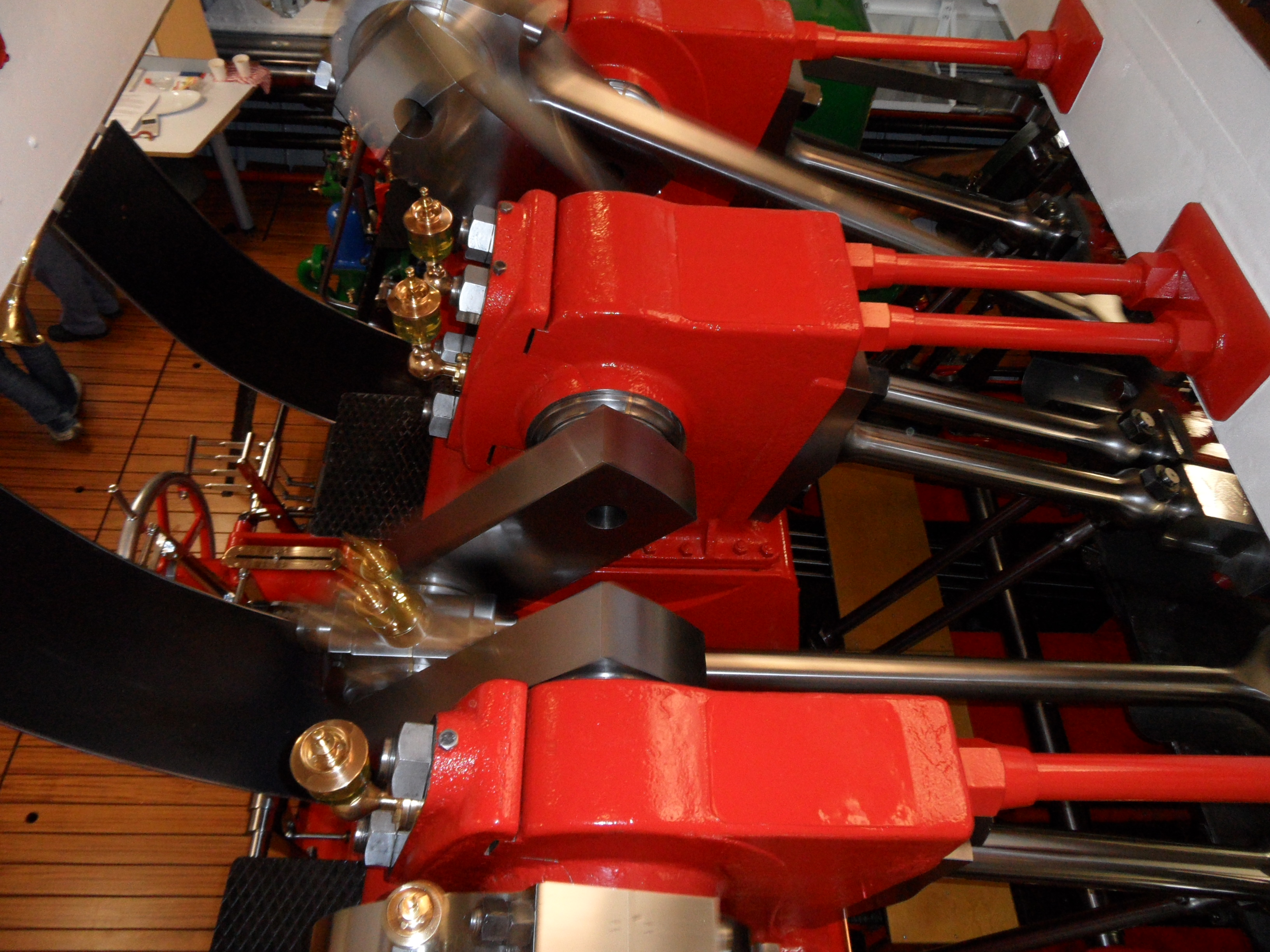 Lake Lucerne paddle steamer "Unterwalden" at the "steamer parade" celebrating her comprehensive restoration and re-entering service, 7 May 2011. Engine.